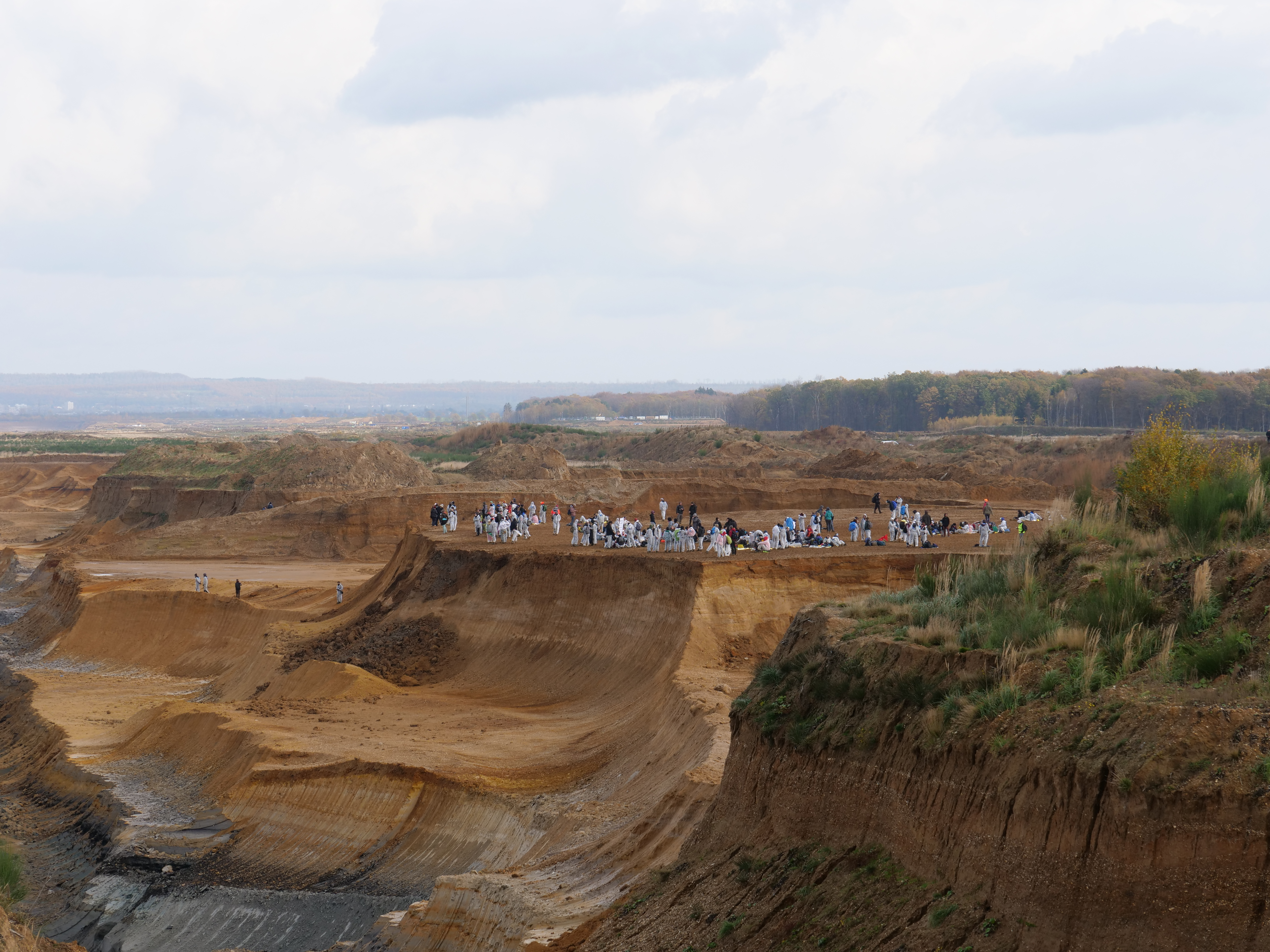 Activists at brim in Hambach pit.